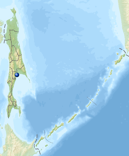 Location of the mouth of the Poronai River, Sakhalin Oblast, Russia